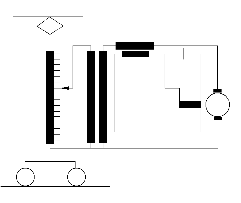 Regenerative brake in resonance arrangement. Drawing based on Sommer,Senn:Entwicklung und Nutzen der elektrischen Rekuperationsbremse bei den SBB, Schweizer Eisenbahn-Revue 6/1996